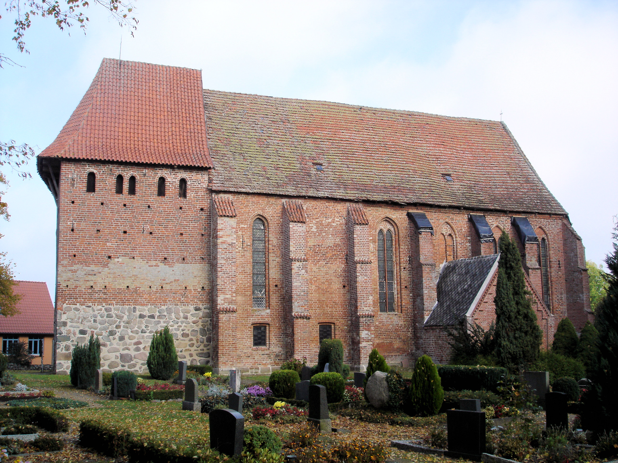 Church in Groß Tessin, Mecklenburg, Germany